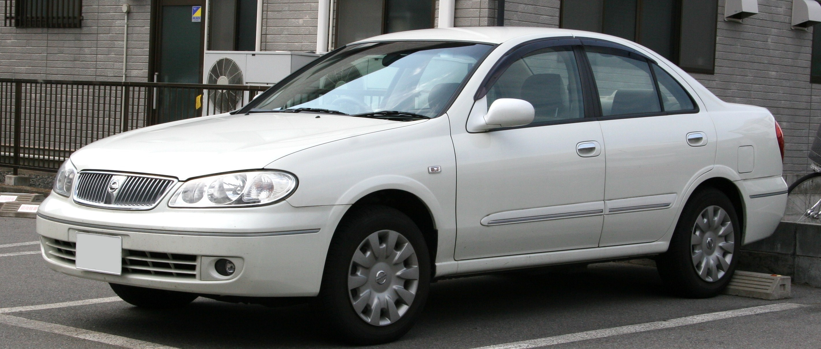 NISSAN BLUEBIRD SYLPY